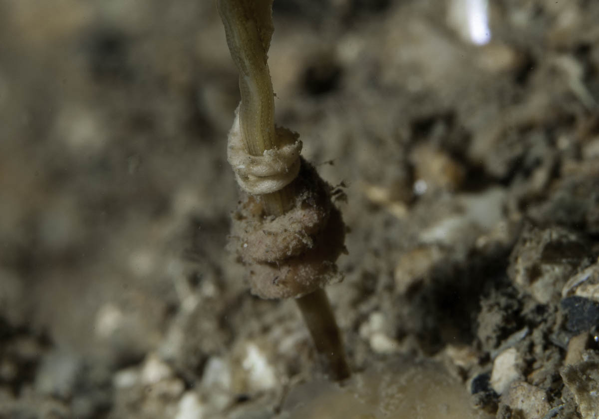 The solenogaster Rhopalomenia aglaopheniae, Firth of Lorne, Scotland.